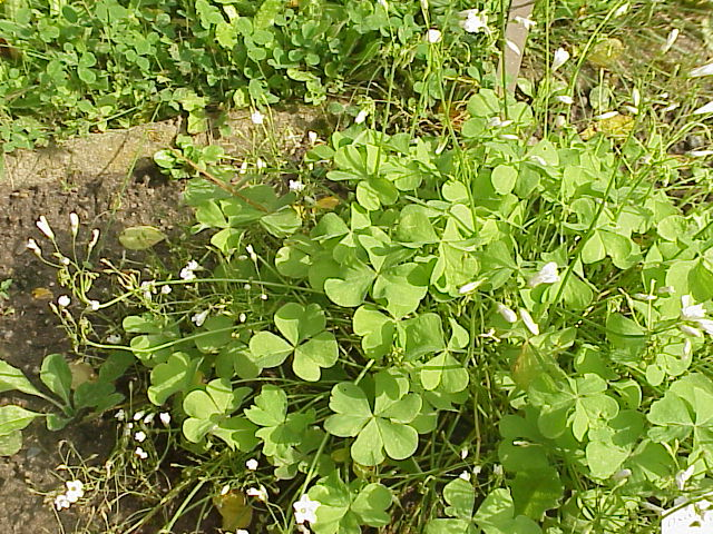 Species: Oxalis arborea Family: Oxalidaceae Image No. 2